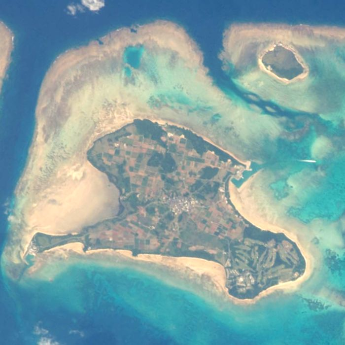 Kohama Island (center) and Kayama Island (upper right), Taketomi, Okinawa prefecture, Japan.